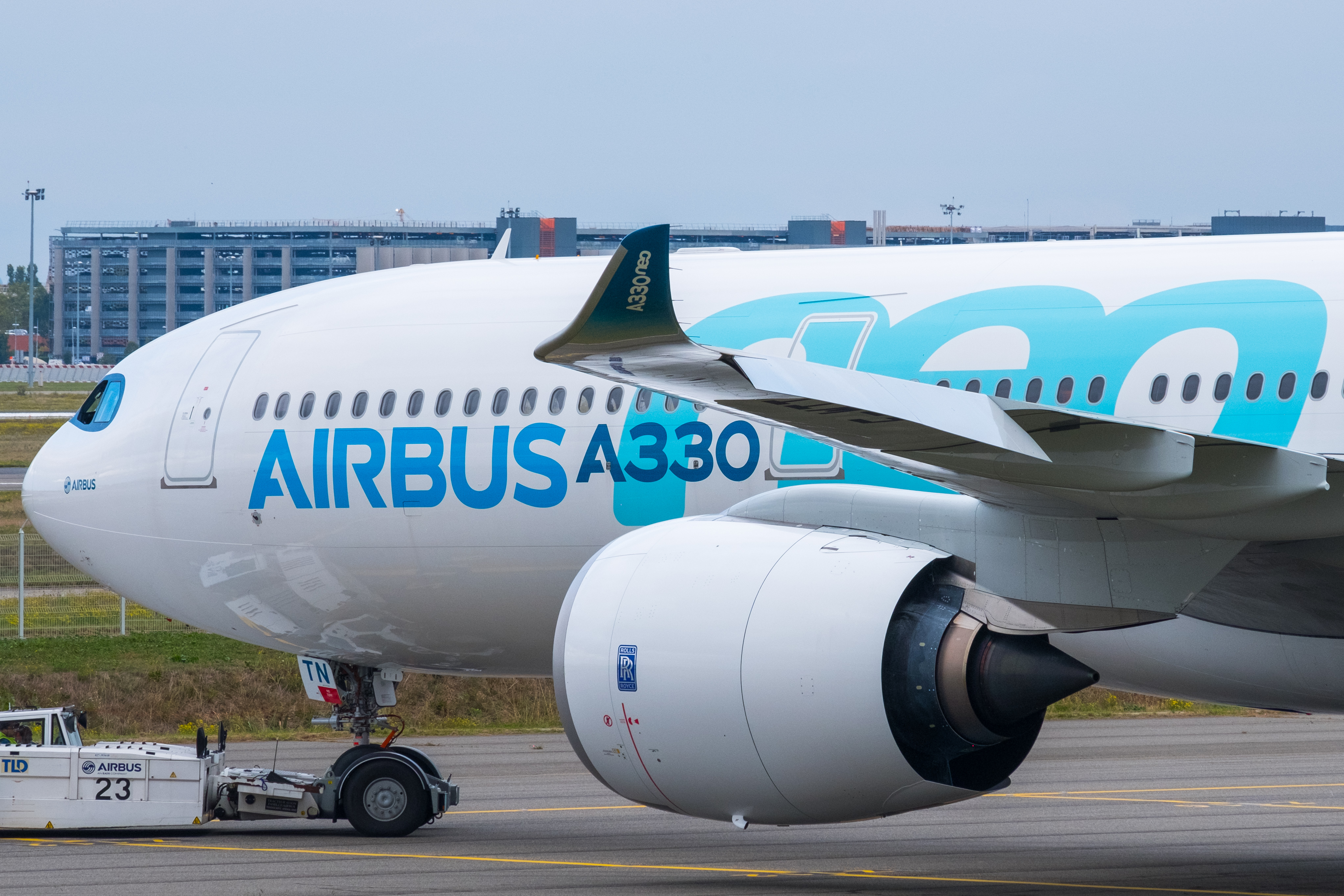 Airbus A330neo First Flight. 19 October 2017, Toulouse, France.